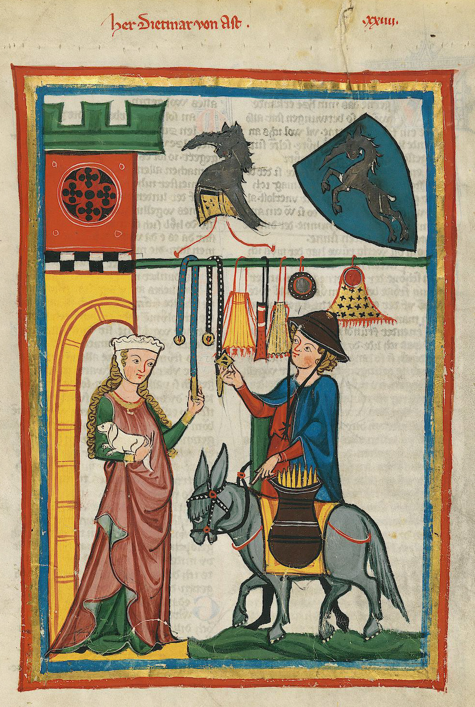 Herr Dietmar von Aist (before 1140 – after 1171). Codex Manesse (Große Heidelberger Liederhandschrift, Cod. Pal. germ. 848), folio 64 recto, around 1300 – 1340, Zürich, miniature, 35.5 × 25 cm, University of Heidelberg Library, Heidelberg.